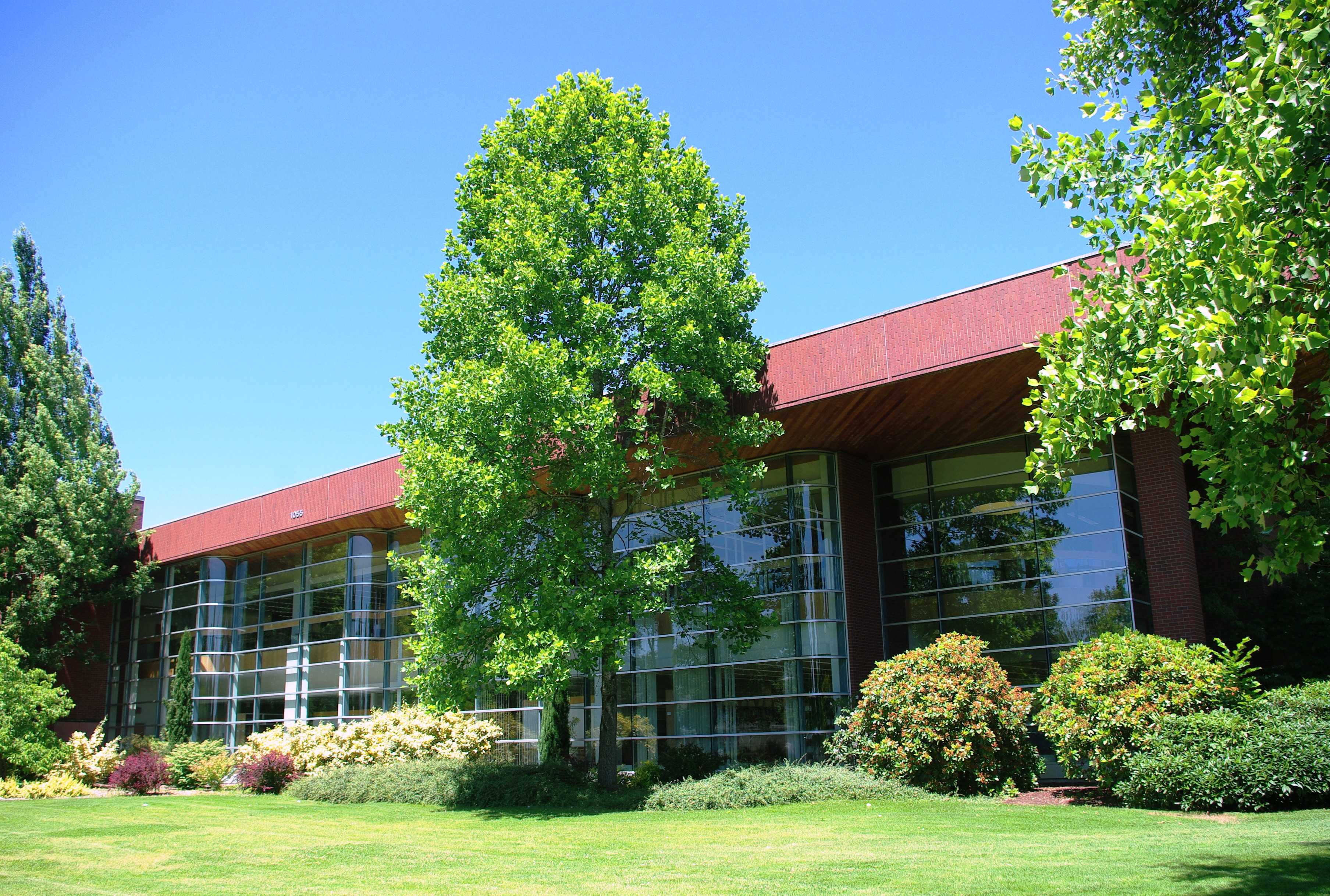 Mark O. Hatfield Library at Willamette University in Salem, Oregon, USA